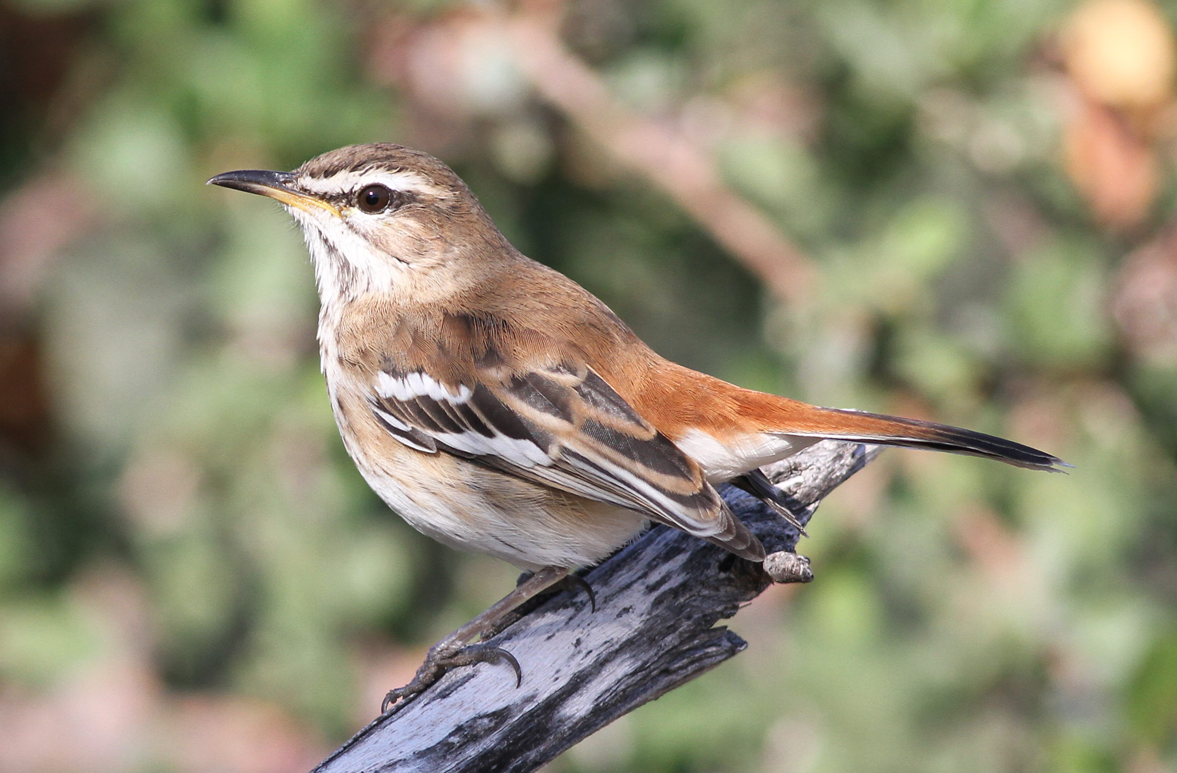 White-browed scrub robin, Cercotrichas leucophrys at Mapungubwe National Park, Limpopo, South Africa